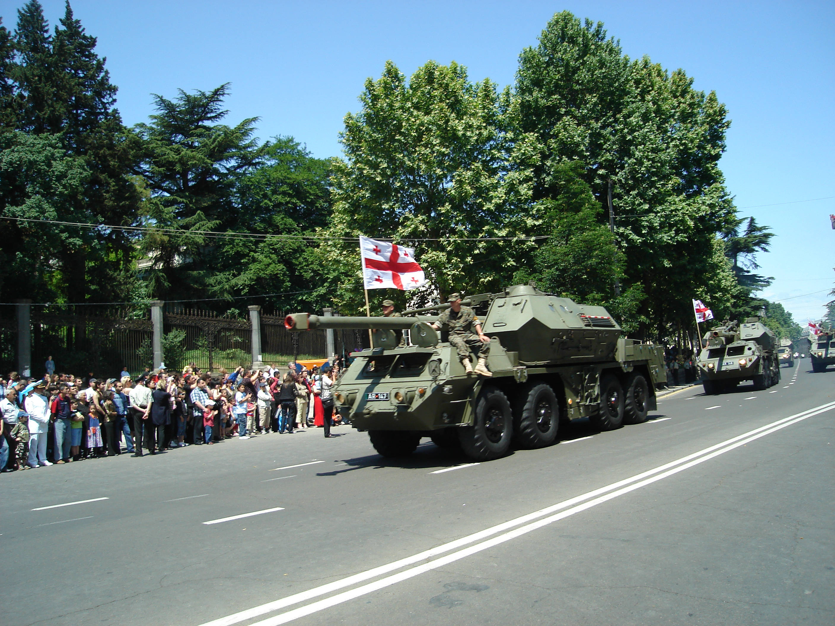 152mm SpGH DANA in Georgia. Independence Day parade in Tbilisi. May 26, 2008.